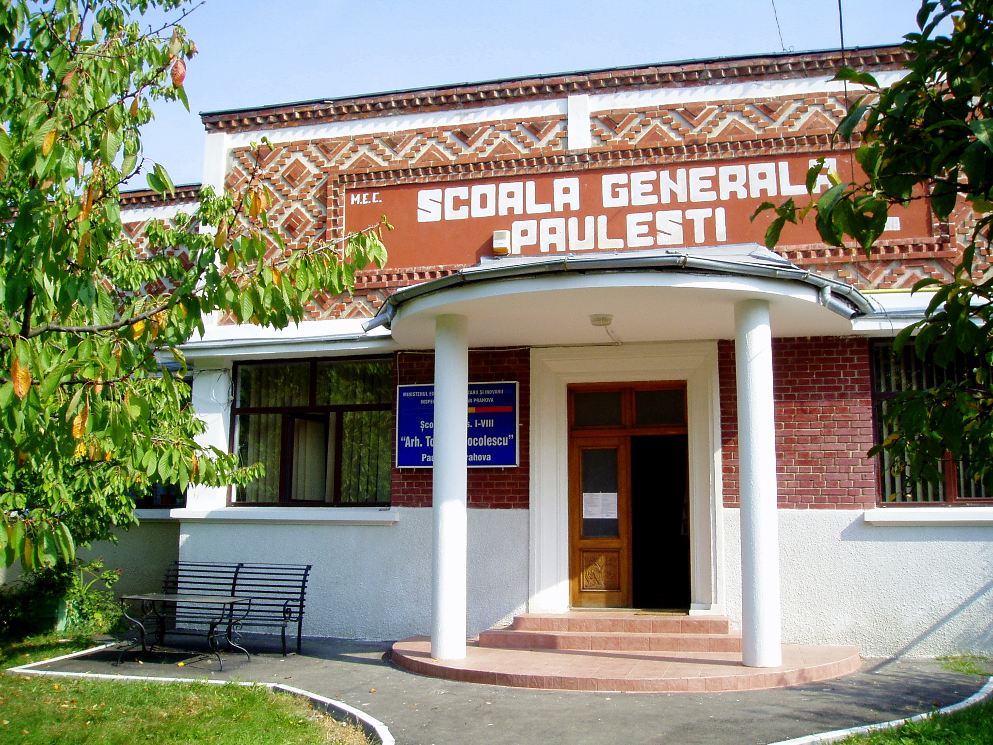 Primary school 'Arh Toma T. Socolescu', Pauleşti, Judeţul Prahova, Romania. Architect: Toma T. Socolescu. We are the only heirs and descendants of Toma T. Socolescu (died in 1960 in Bucharest) and therefore owner of all his intellectual rights.